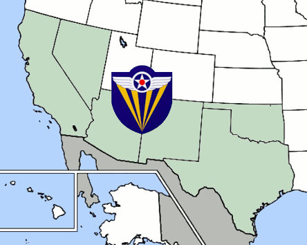 Map of World War II USAAF 4th Air Force region of the United States